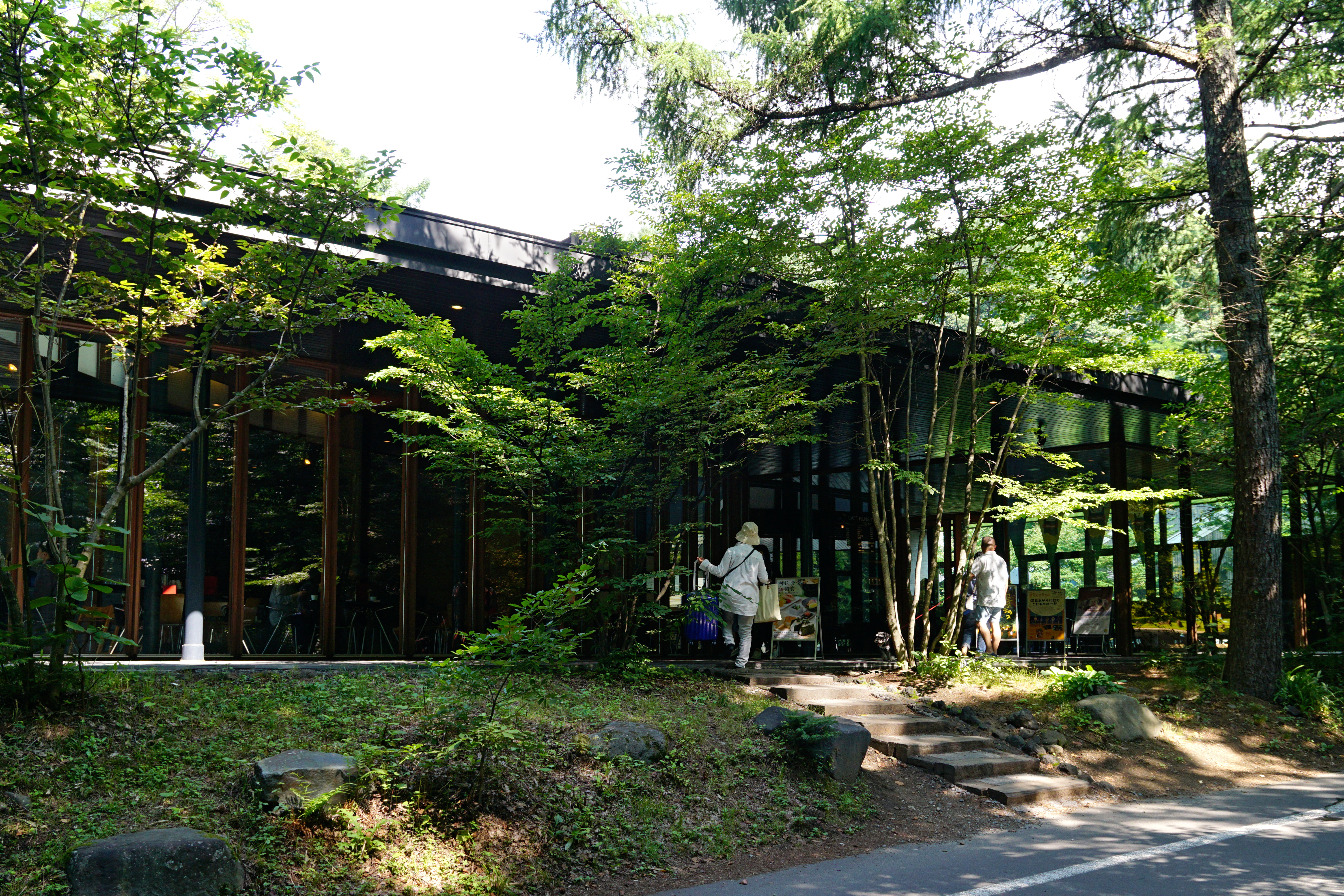 Hoshino Onsen in Karuizawa, Nagano prefecture, Japan.